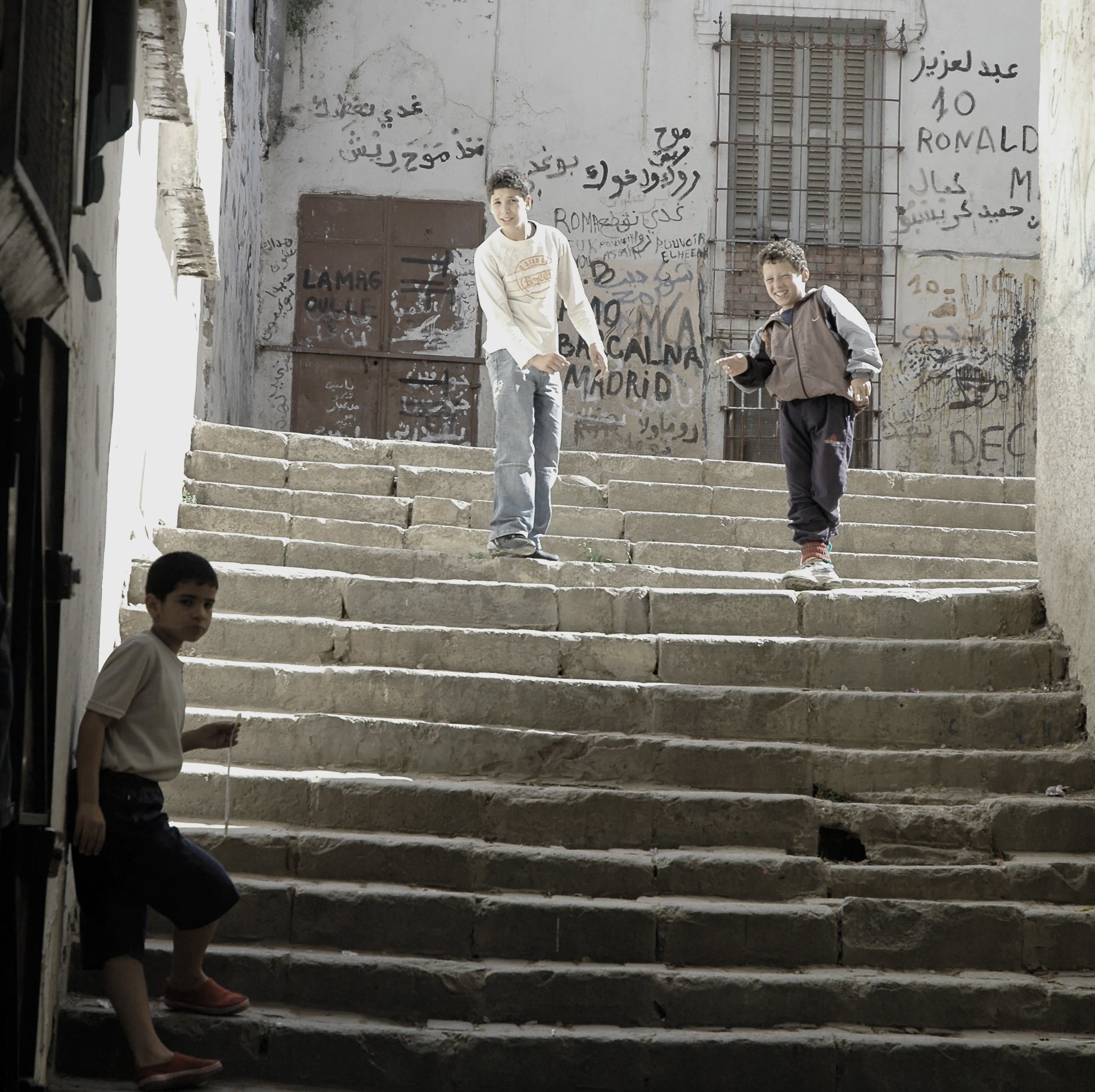 Young inhabitants of Algiers in the streets of the Kasbah of Algiers (Algeria)